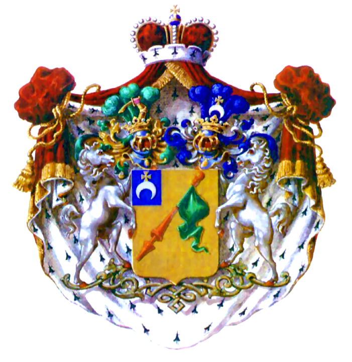 Bajushew COA